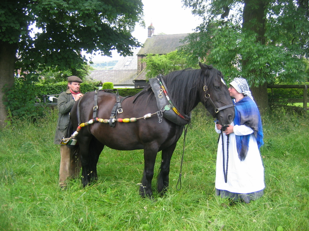 Boathorse Queenie, Peak Forest Canal, Marple, England